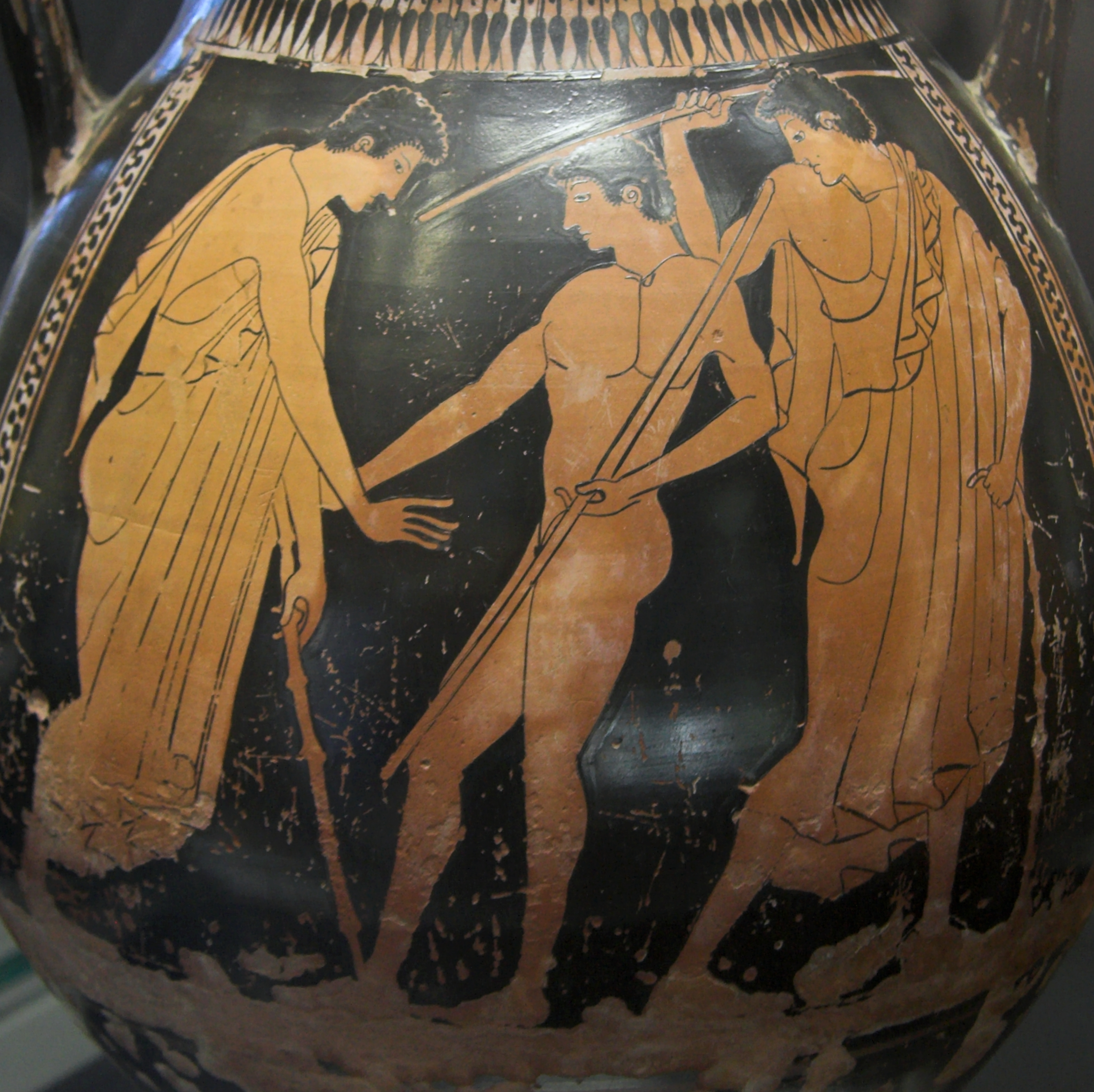 Attic red figure pelike, ephebes, around 475 BC. Archaeological Museum of Syracuse, 36257.